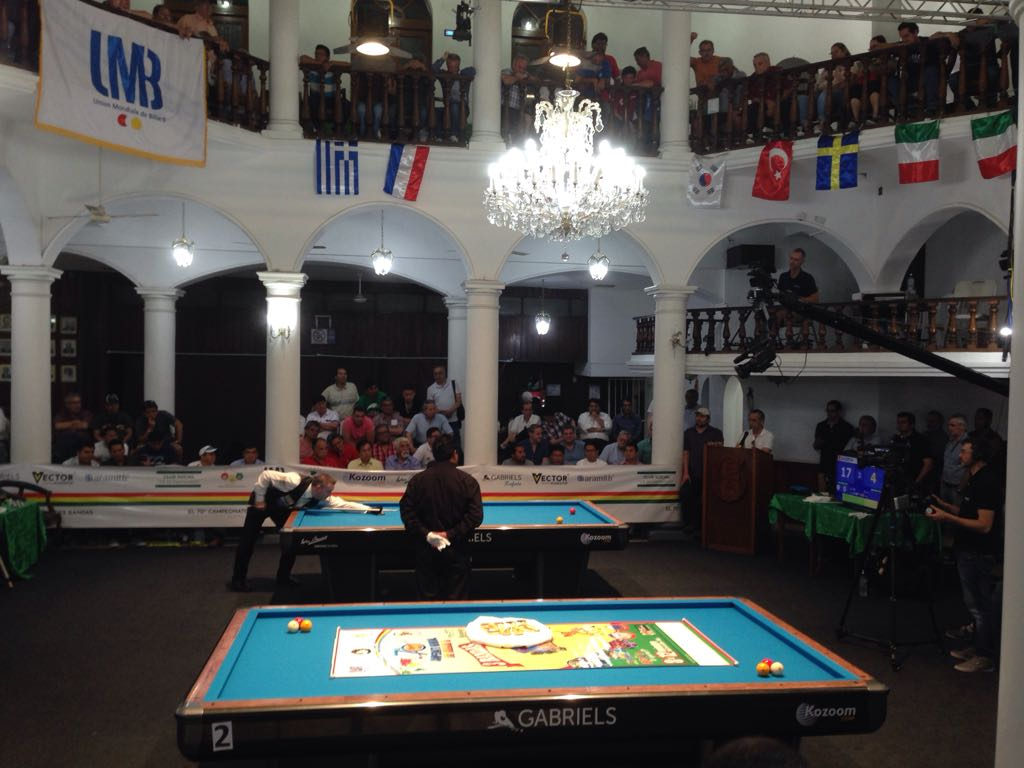 see file name